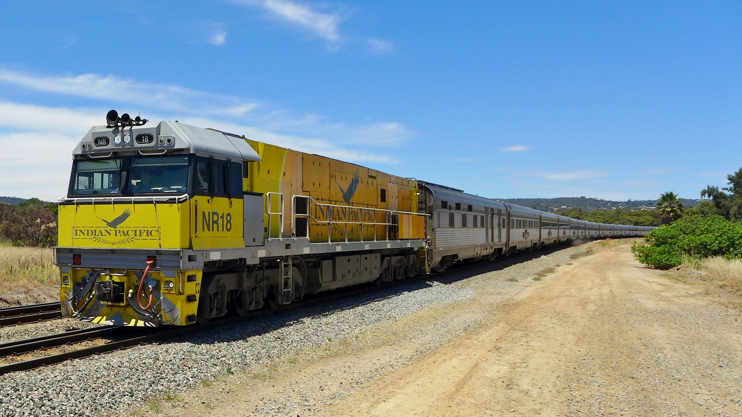 NR class locomotive no. NR18, in a yellow Indian Pacific livery, leads an eastbound Indian Pacific towards the Toodyay Road level crossing in Stratton, Western Australia, about 25 minutes after its departure from East Perth Terminal.